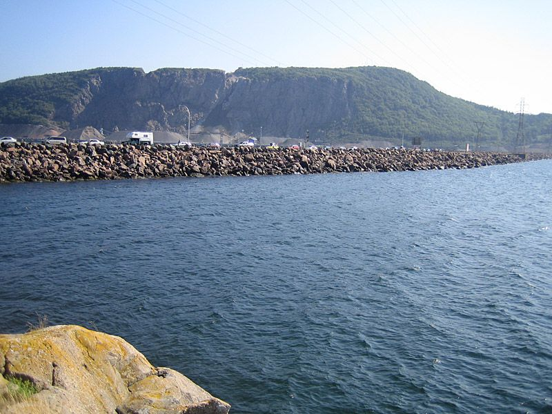 Canso Causeway from Cape Breton Island, Nova Scotia. Photo by Skylar Challand, August 2006.